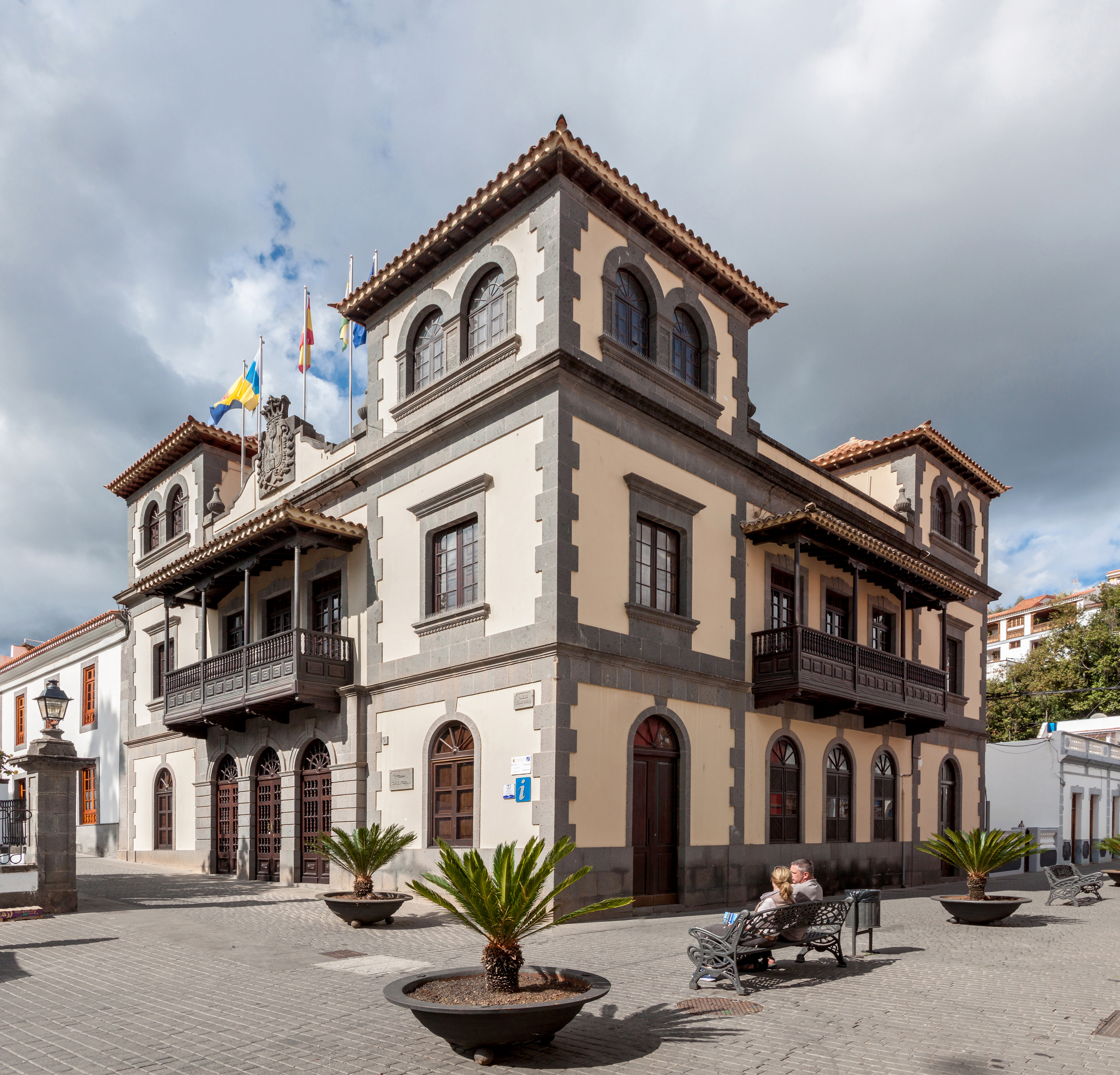 Townhall of Teror, Gran Canaria, Canary Islands, Spain.